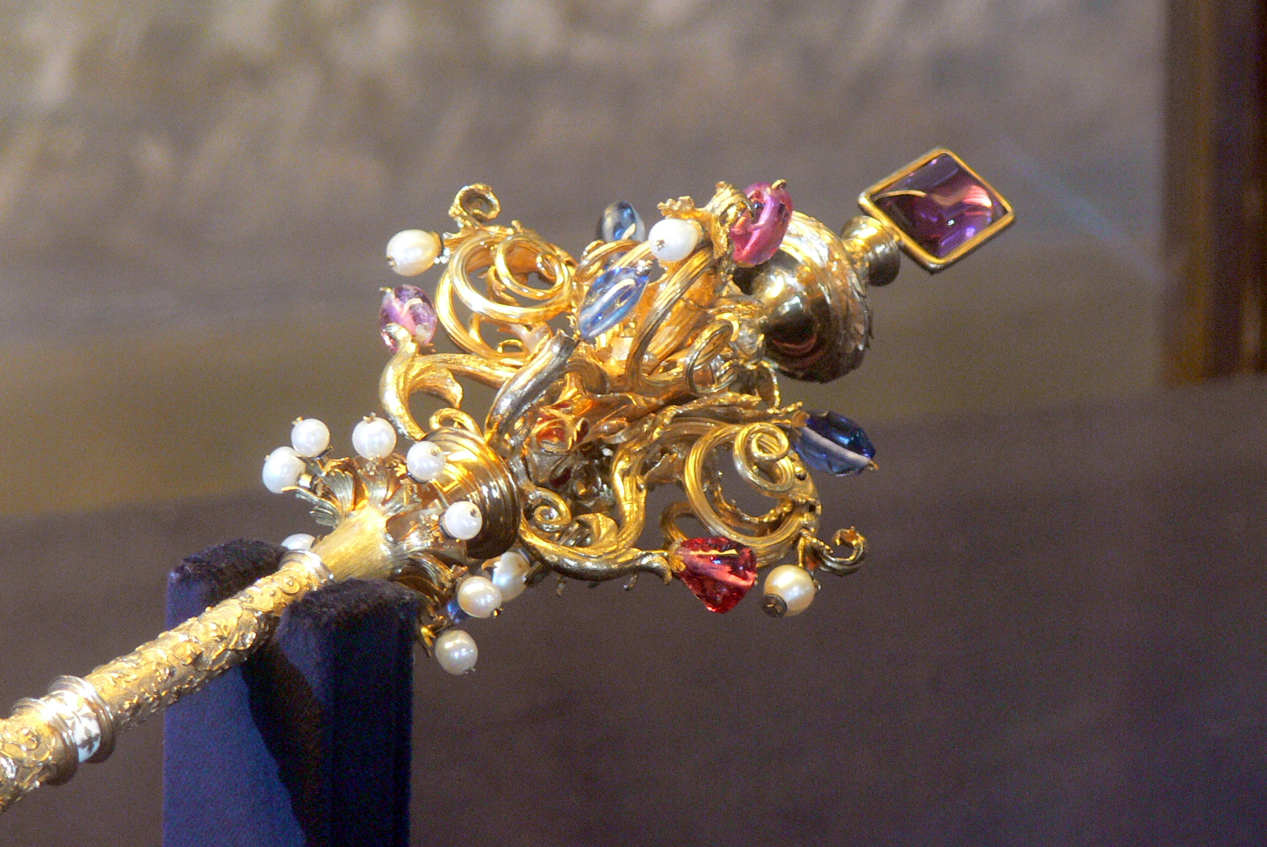 Royal sceptre of Bohemia ( copy ), situated in Vladislav Hall ( Prague castle )